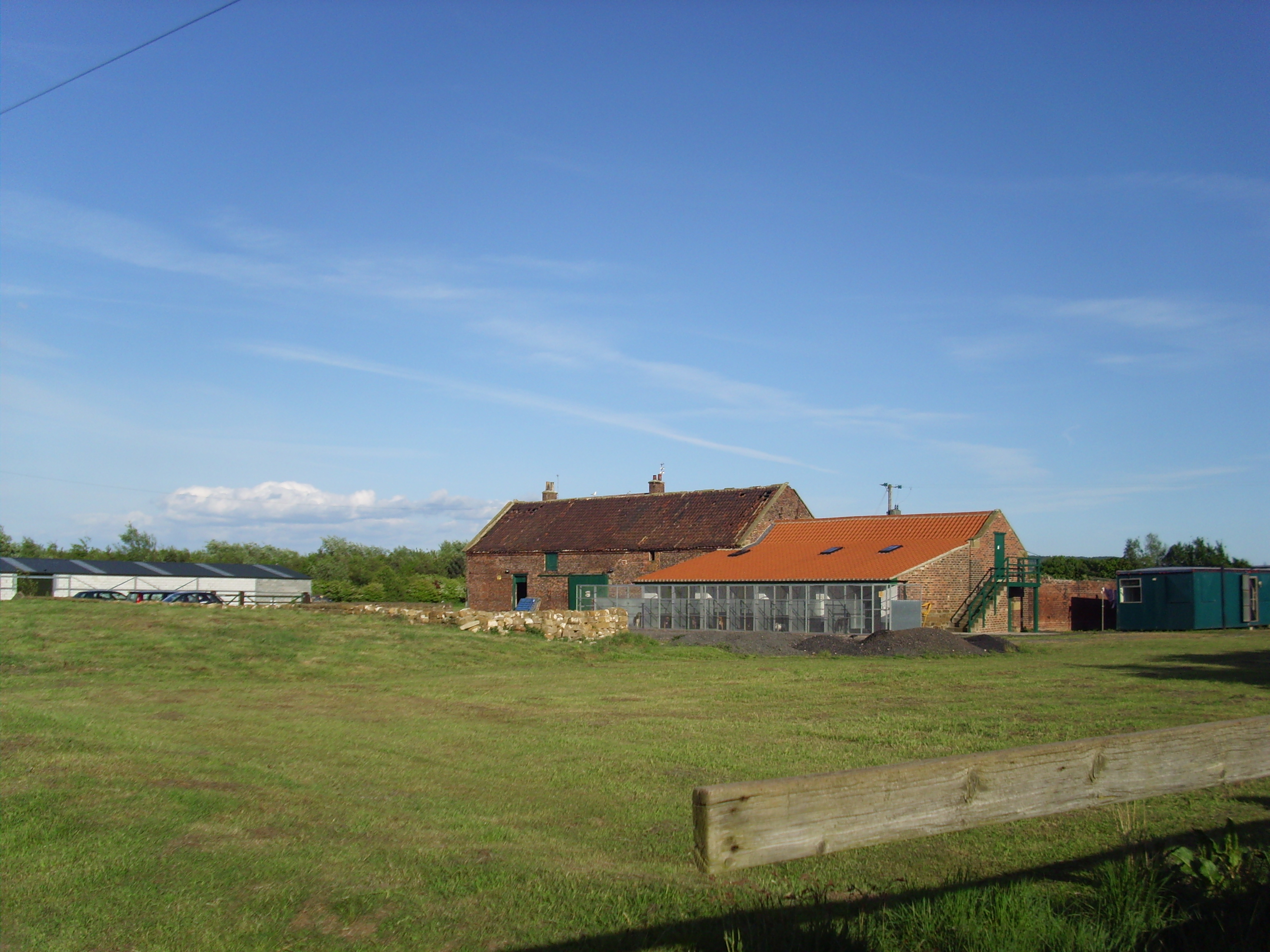 This is Foxrush Farm located on the outskirts of Dormanstown